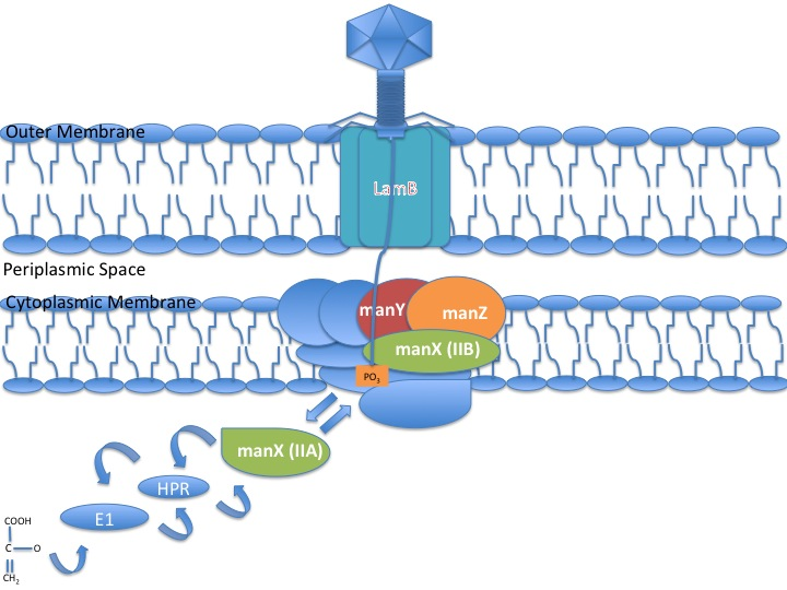 Step 10 in the mannose PTS permease transportation complex